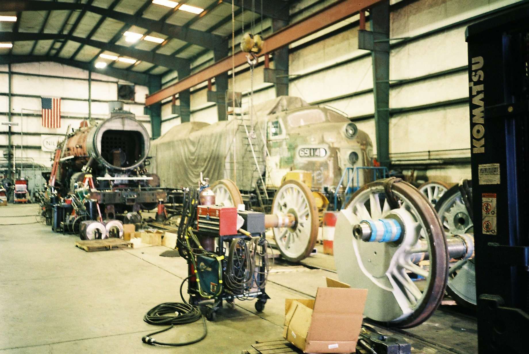 Tennessee Valley Railroad. . Baldwin 2-8-2 no. 4501 (1911) & General Motors E8 diesel-electric no. 6914 (1953) both ex-Southern Railway, Soule Shops.. East Chattanooga, Chattanooga, TN